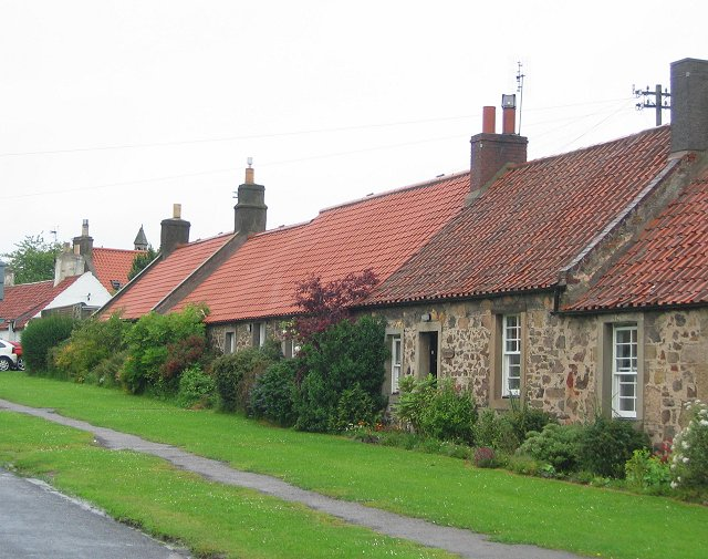 Athelstaneford. Pretty village and home of the Saltire, supposedly derived from a white cross of clouds against a blue sky during the battle of Athelstaneford in 832. The Saxon name of the village does not hint that the Northumbrians lost, and control of the South east of Scotland passed to the Scots and Picts. It was not that long since Saxon supplanted Welsh as the local language, their place names remain too with Tranent and Pencraig as examples.